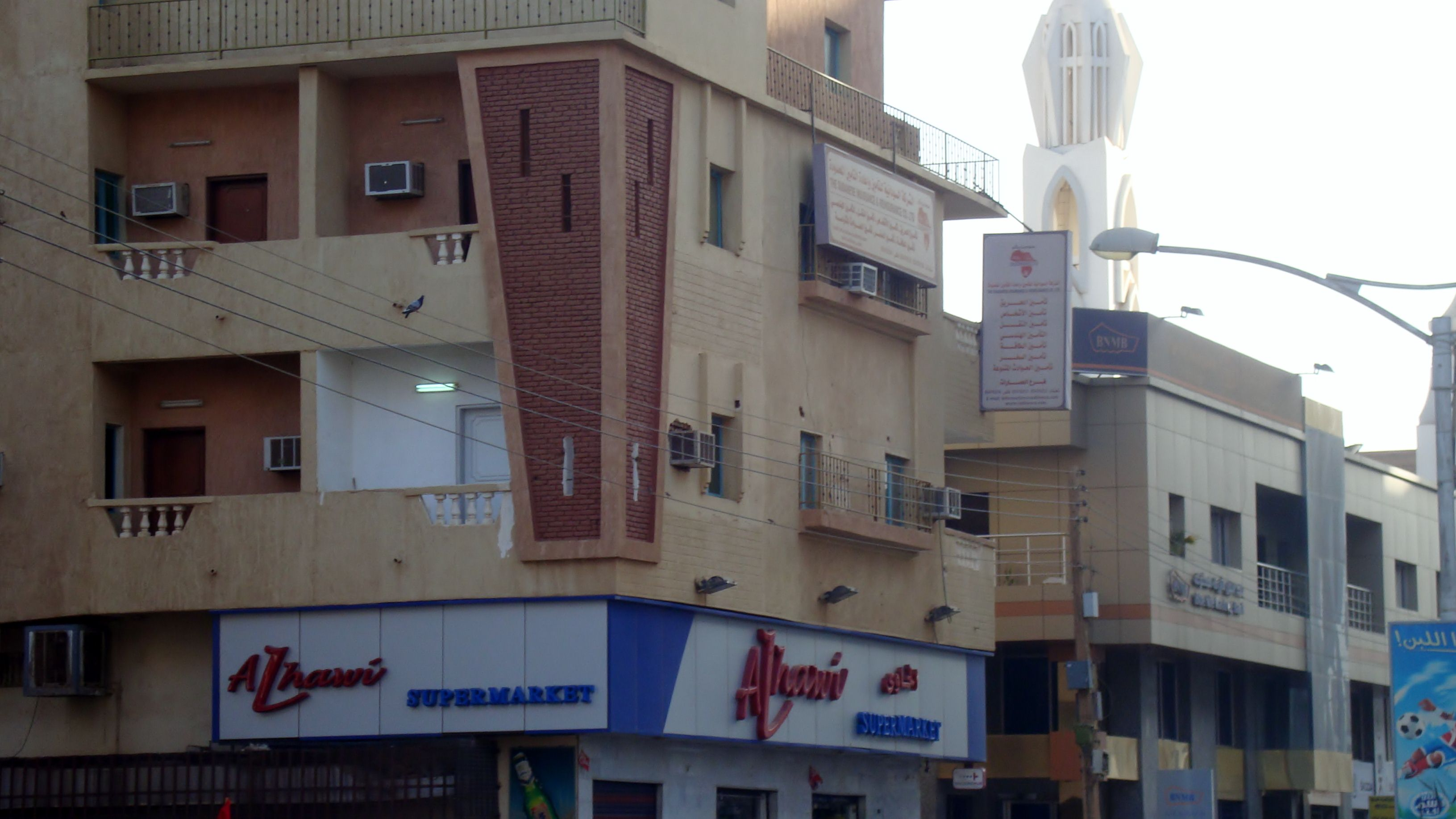 Amarat Street No: (15) – Khartoum - Sudan